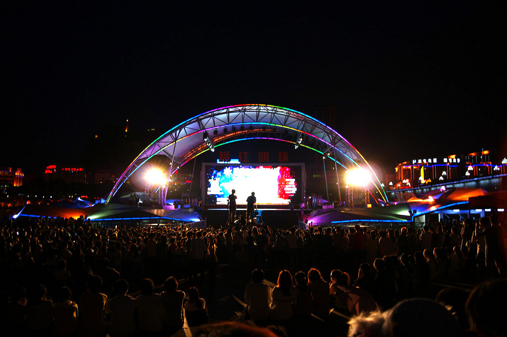 willow river-bright pearl over water great stage